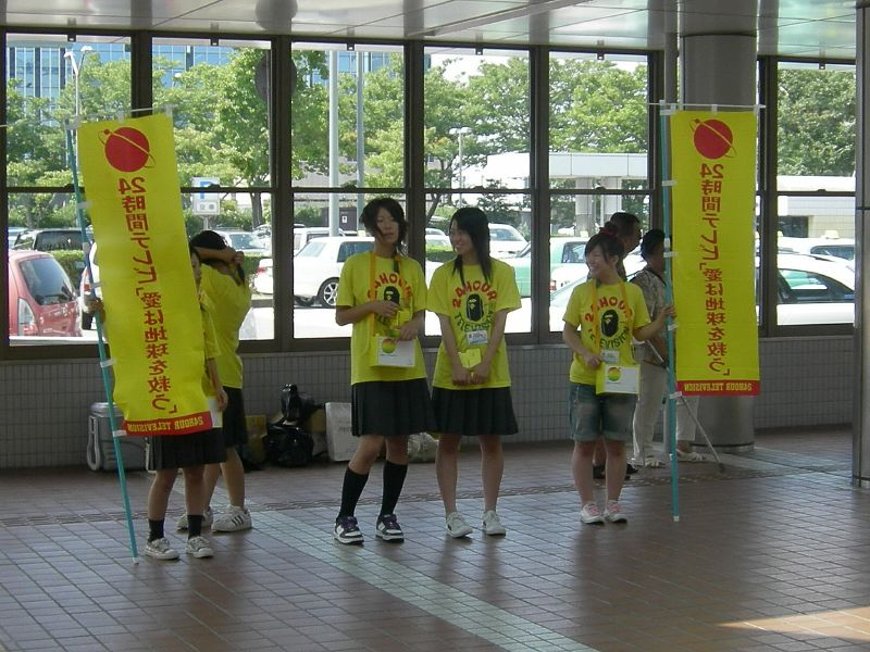 Fundraising for the Japanese Telethon in Kanazawa